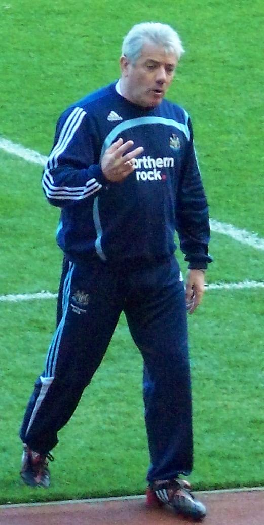 English football (soccer) manager Kevin Keegan